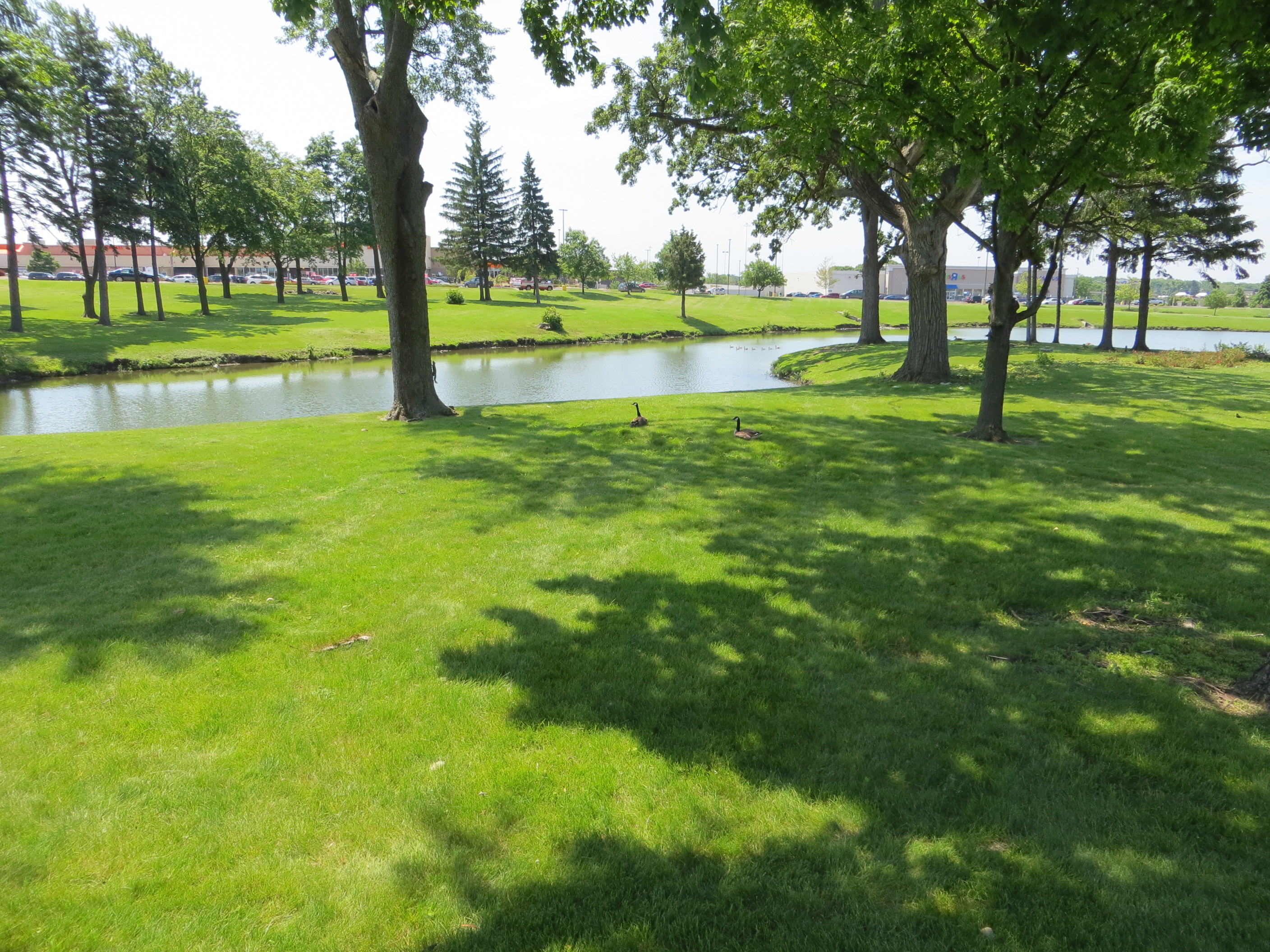 Pond and former grounds of the Racine County Insane Asylum at High Ridge Centre in Racine, WI